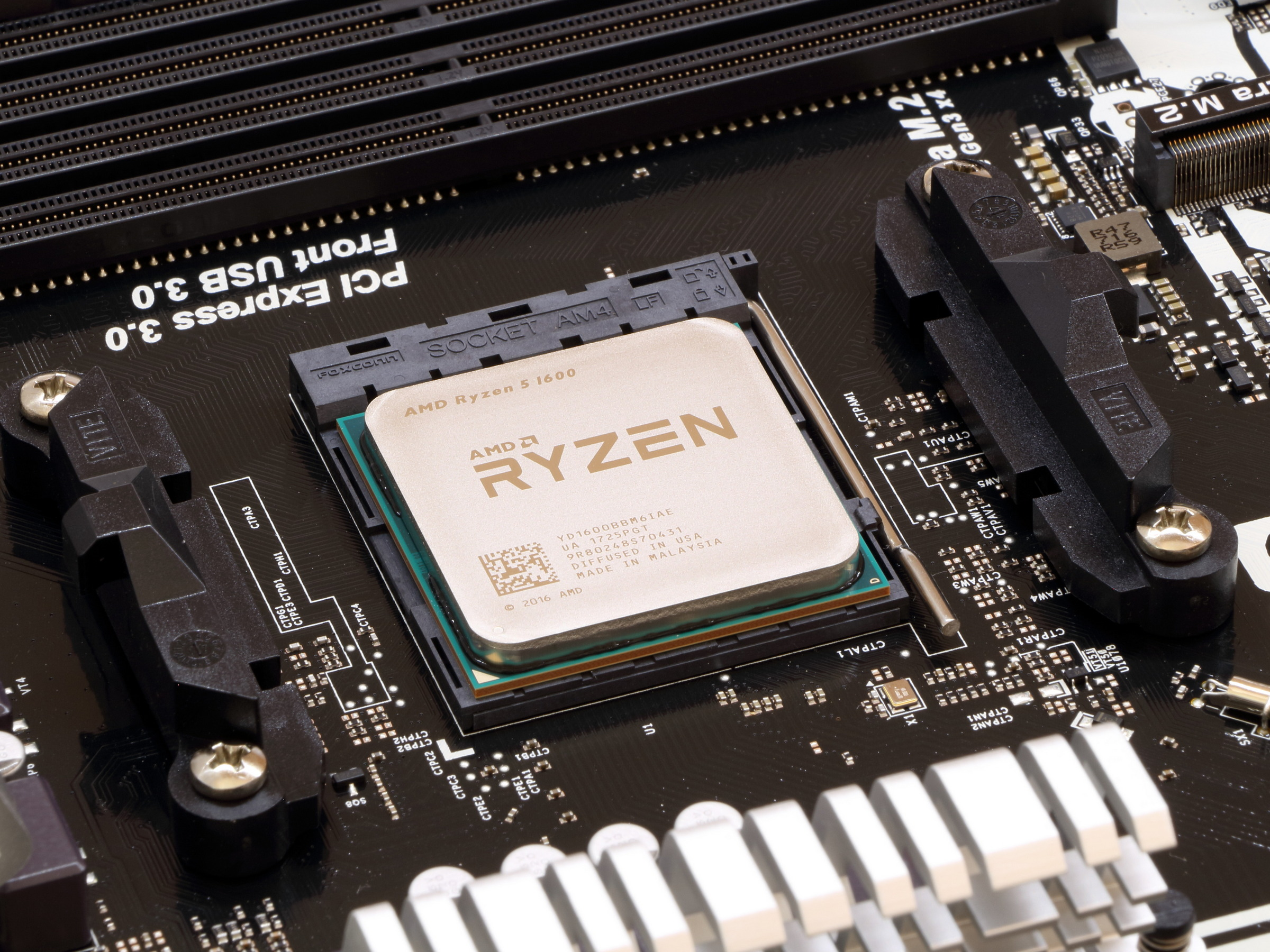 Ryzen 5 1600 CPU installed on a motherboard. Photographed on an ASRock AB350M Pro4 motherboard. This particular CPU was sent back to AMD for replacement.